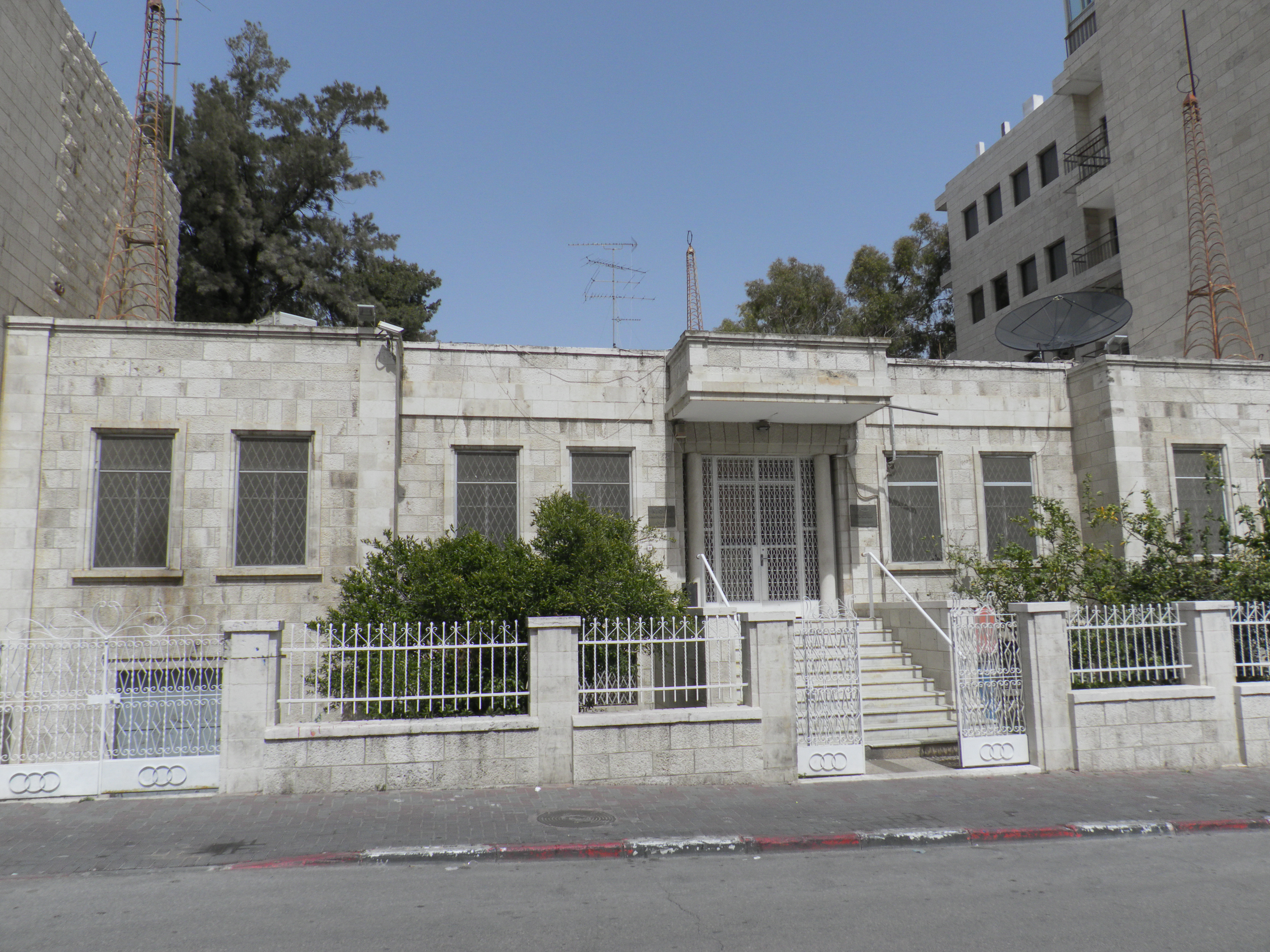 Offices of the newspaper Al-Quds in Jerusalem.